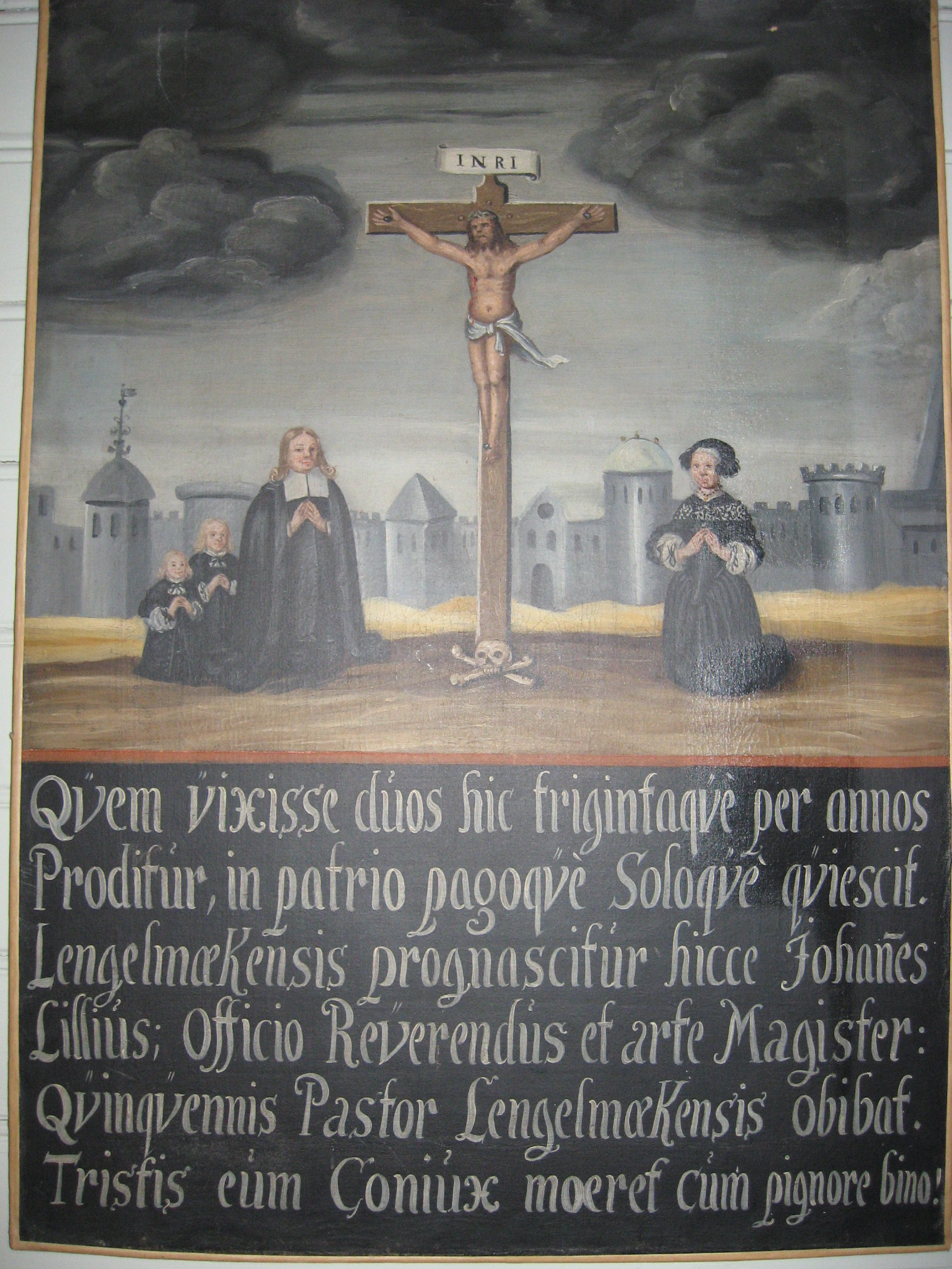 Votive painting (mid 17th century) of Finnish Lutheran vicar Johan Lilius with his two sons (left) and his wife Elin Andersdotter Aejmelaeus (right), kneeling at the foot of Christ's cross. Johannes Henrici Lilius (Johan Lilius) (1630-1663), Filosofie magister (The Royal Academy of Turku), Vicar at Längelmäki. Elin Andersdotter Aejmelaeus was the daughter of Anders Jacobsson Aejmelaeus Bailiff of Satakunda, ( Votive painting - The term "ex voto" comes from the Latin "ex voto suscepto " meaning "in pursuance of a vow." It may be used in reference to a painting, a plaque or any object placed in a church or chapel to commemorate a vow or to express thanks for a favour received. Filosofie magister - In Sweden, magister (filosofie magister) historically was the highest degree at the faculties of philosophy and was equivalent to the doctorate used in theology, law and medicine. The degree was abolished in 1863, and replaced with the Doctor of Philosophy, (